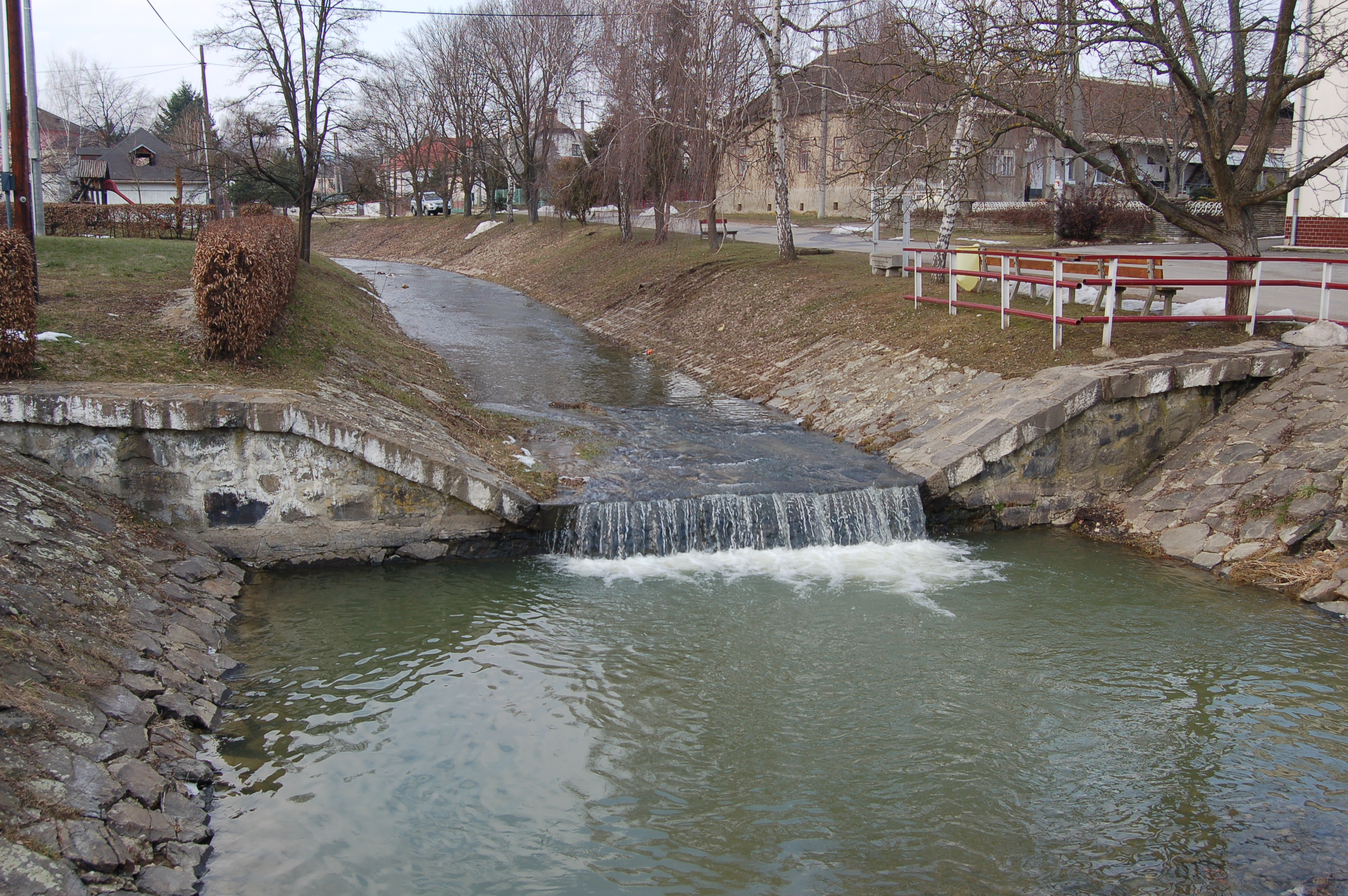 River Izra in Brezina